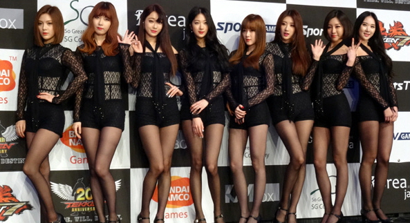 Nine Muses in Jan 2015